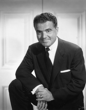 Portrait of a young Jack Valenti in a suit.